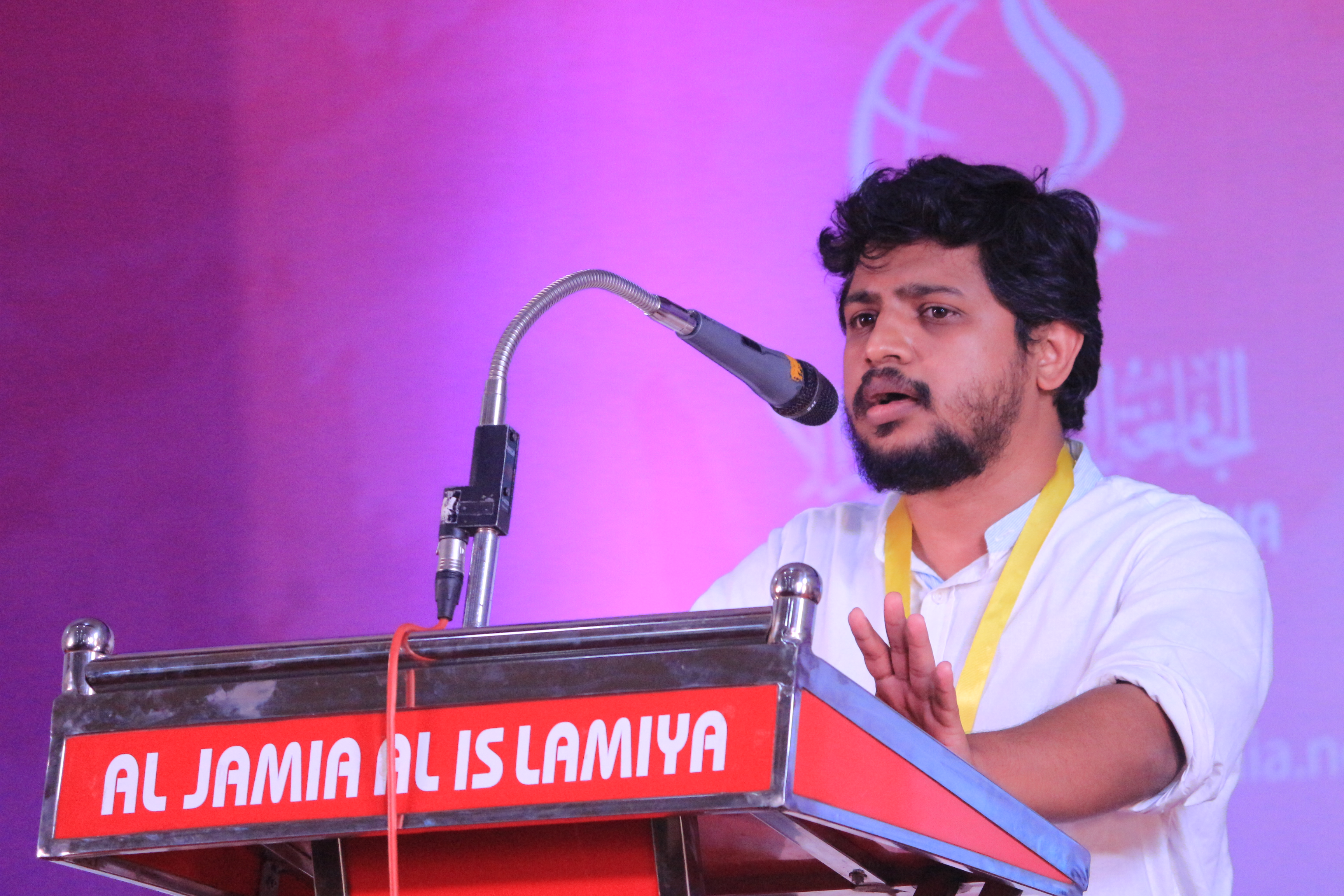 Filim Director Zakariya at Al Jamia Santhapuram